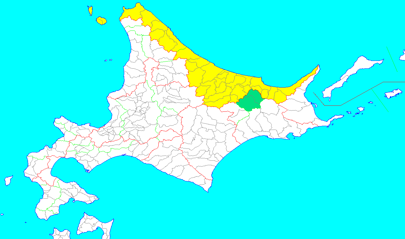 area of Kitami provinces of Hokkaido in Japan(1869/08/15). green:1881/07 added